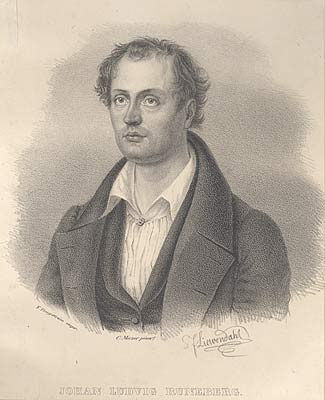 Finnish national poet